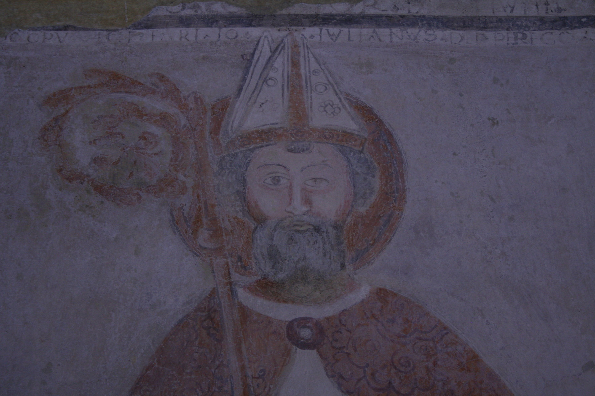 Basilica of Saints Peter and Paul in Agliate, Lombardy, Italy.